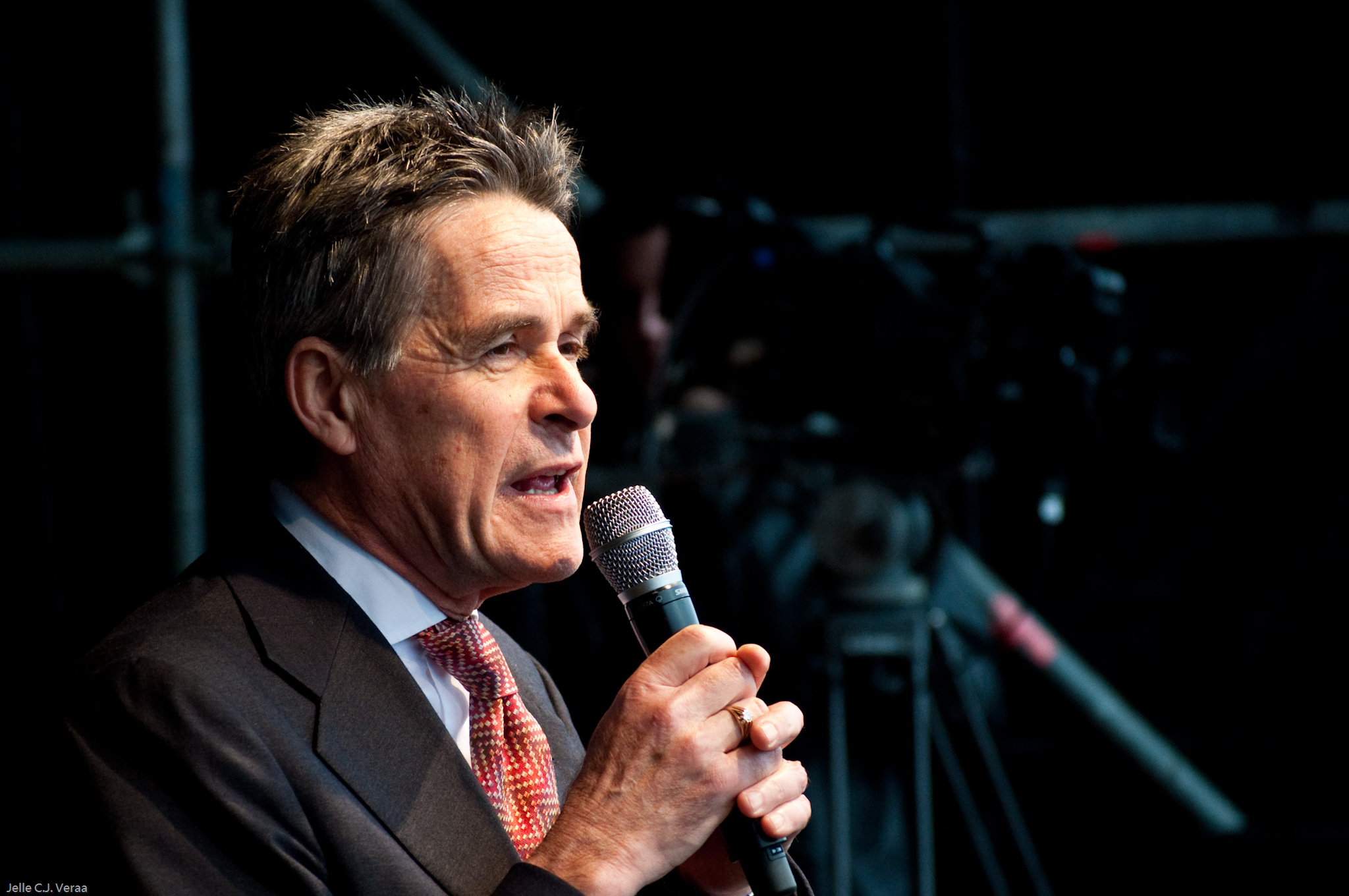 Sijbolt Noorda while making his speech at the Dutch student demonstration against higher education budget cuts.